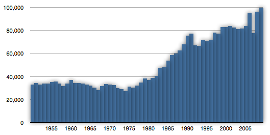 Global capture production in tonnes by year for American lobster (Homarus americanus), based on FAO fisheries data